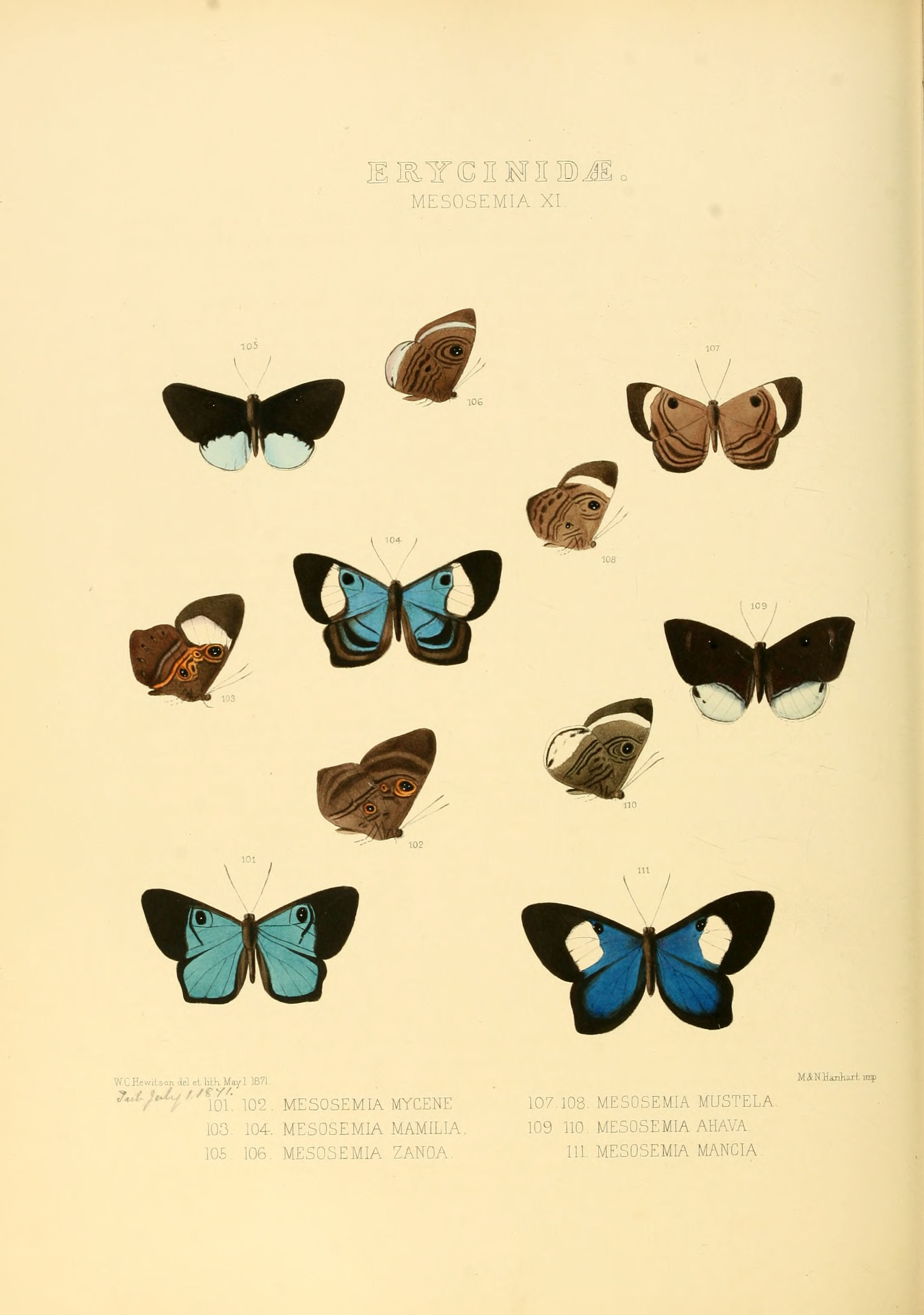 Plate: Mesosemia XI Mesosemia mycene. Figs. 101, 102. Accepted as Mesosemia asa Hewitson, 1869. Mesosemia mamilia. Figs. 103, 104. Accepted as Mesosemia mamilia Hewitson, 1870. Mesosemia zanoa. Figs. 105, 106. Accepted as Mesosemia zanoa Hewitson, 1869. Mesosemia mustela. Figs. 107, 10s. Accepted as Mesosemia macrina (C. & R. Felder, 1865). Mesosemia ahava. Figs. 109, 110. Accepted as Mesosemia ahava Hewitson, 1869. Mesosemia mancia. Fig. 111. Accepted as Mesosemia mancia Hewitson, 1870.